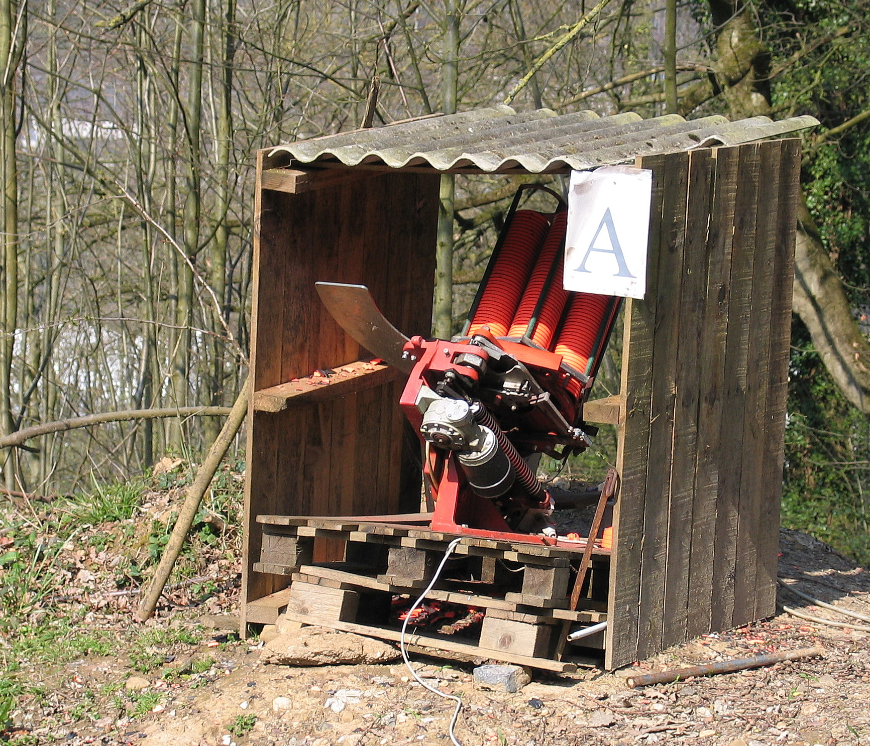 A trap - device to fling clay targets while practising skeet shooting - werpmachine voor het kleiduivenschieten - own work by Paul Hermans